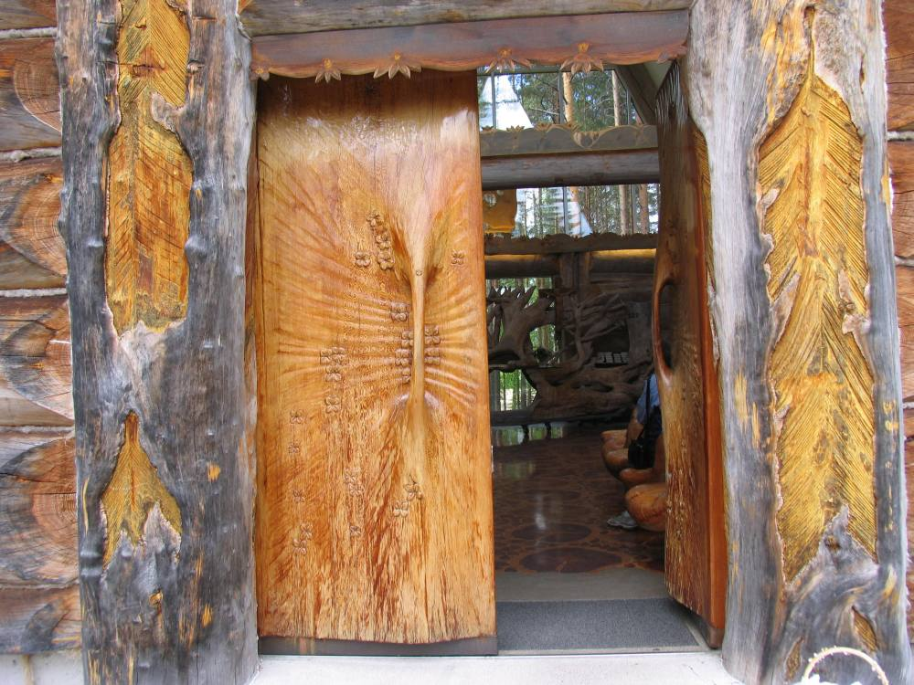 The door of the Paateri church in Lieksa, Finland